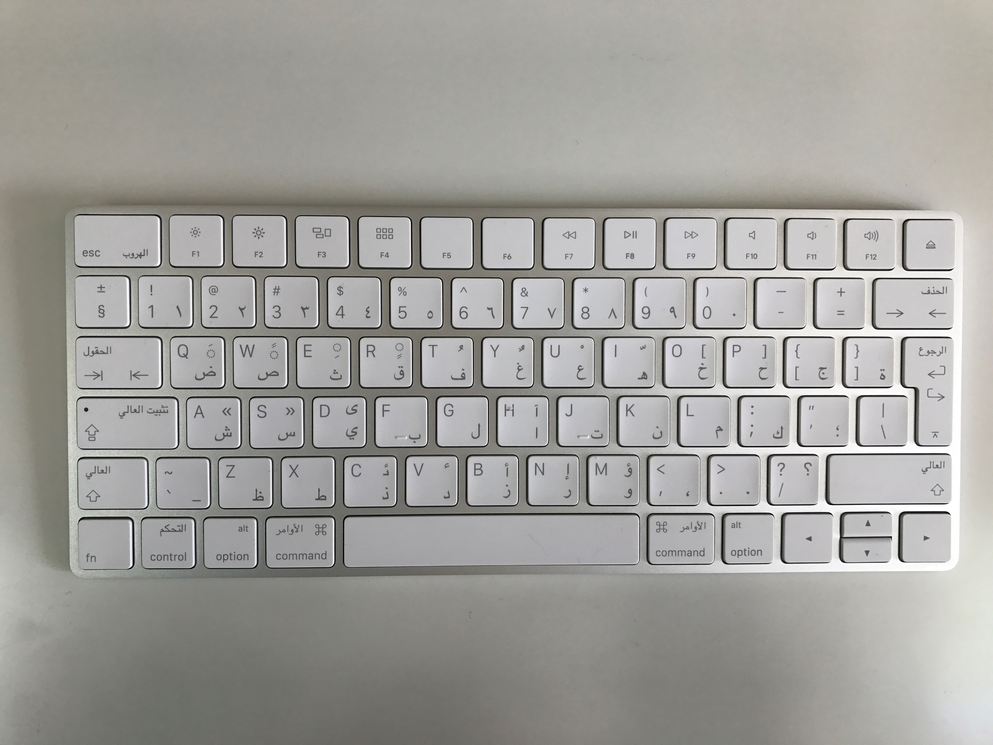 Apple Keyboard with Arabic Letters